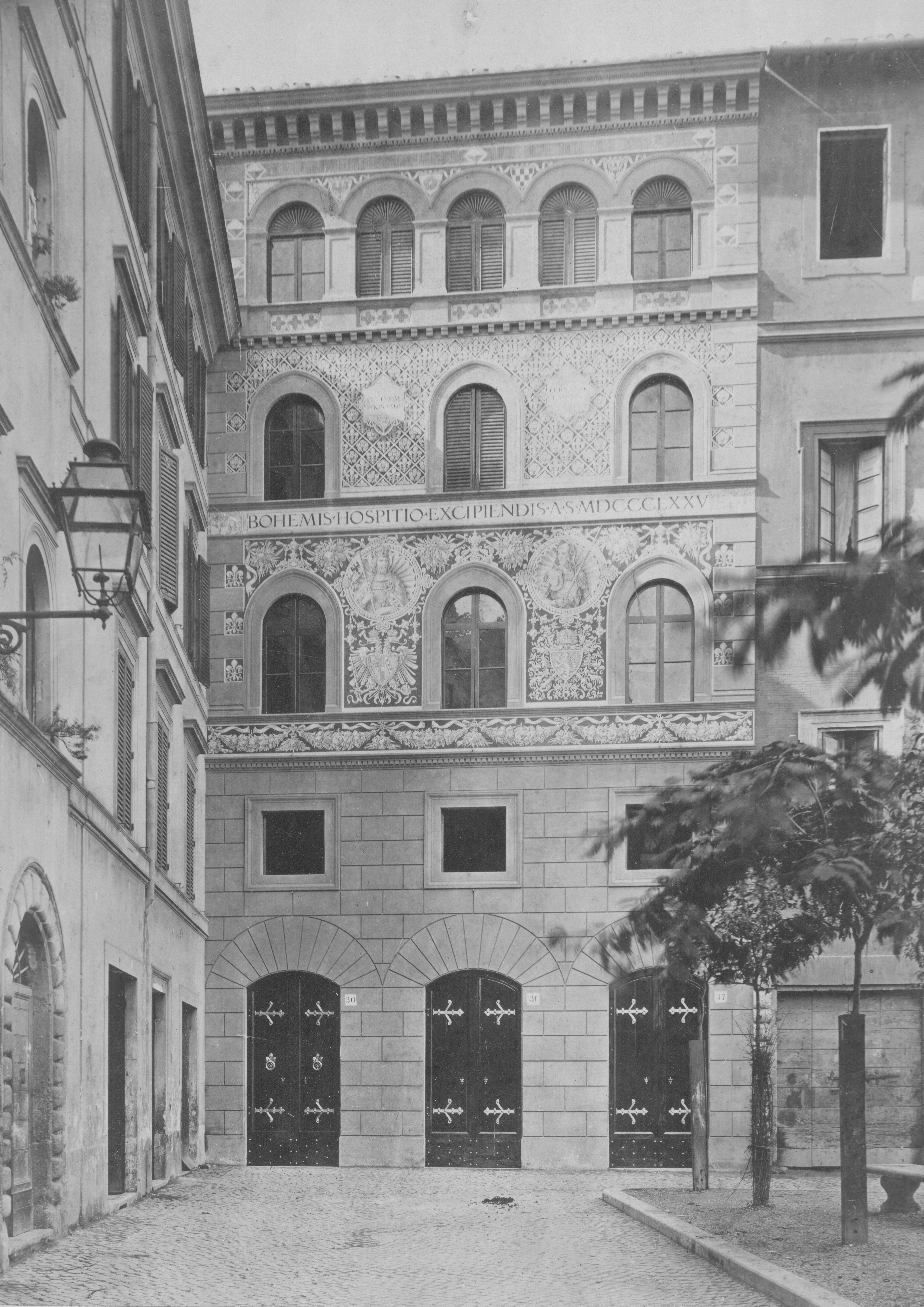 Czech Pilgrimhouse in Rome, facade to Piazza Sforza Cesraini, 30, ca 1875.